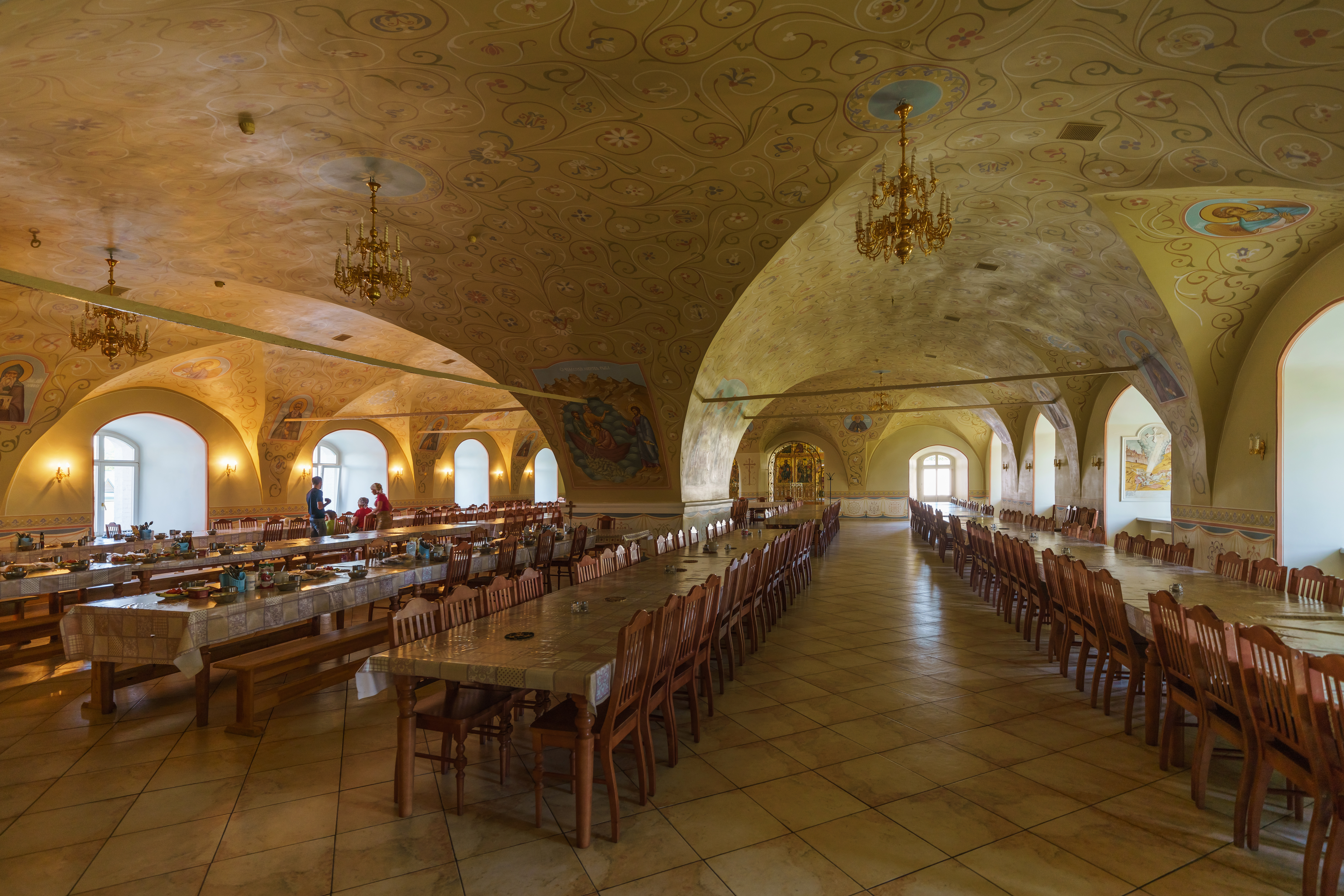 Refectory of Iversky Monastery in Valdai, Novgorod Oblast, Russia.